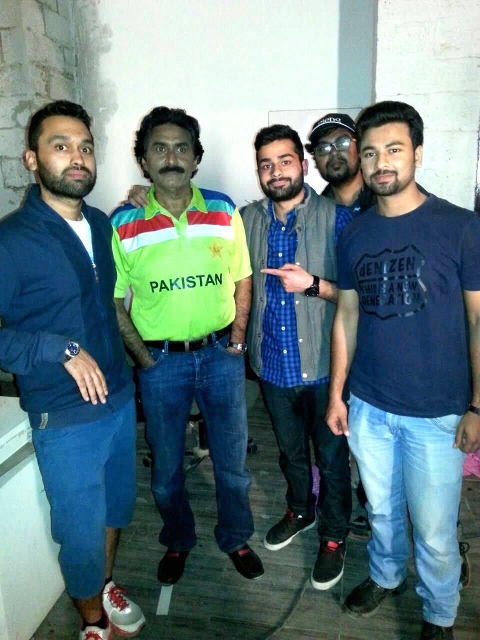 This picture is taken on 9th of feb, 2015 during the commercial ad shoot of PTCL with Javed Miandad.